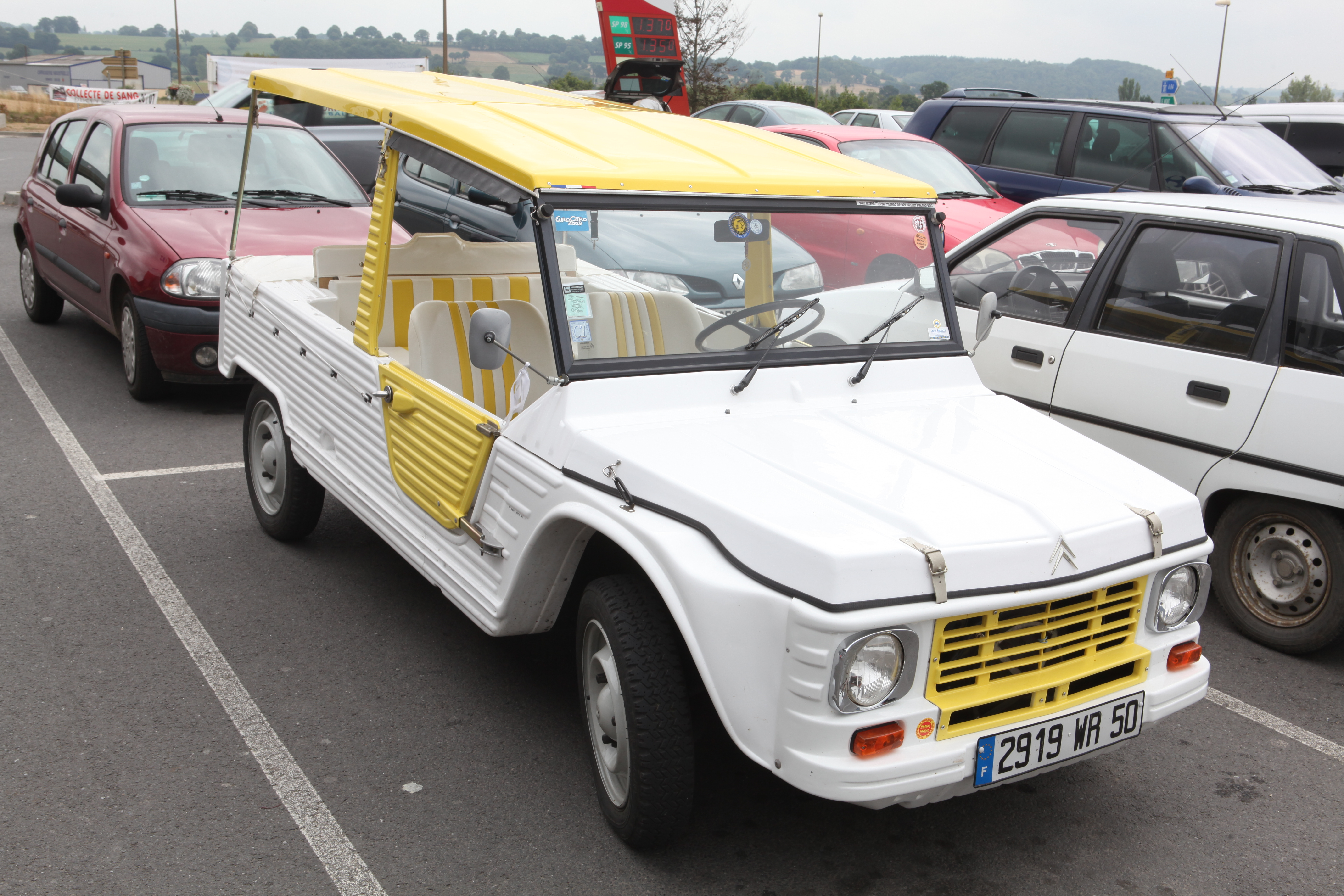 Yellow White Citroen Mehari